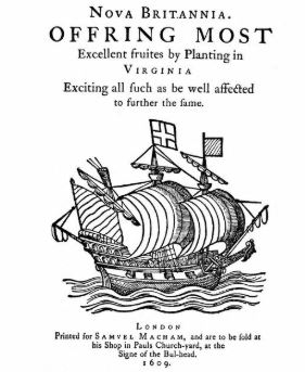 Cover a a publication that recruited people for Virginia and Jamestown.